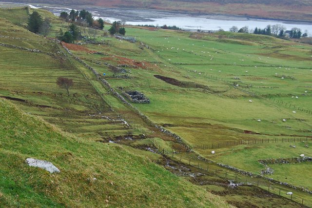 Eyre